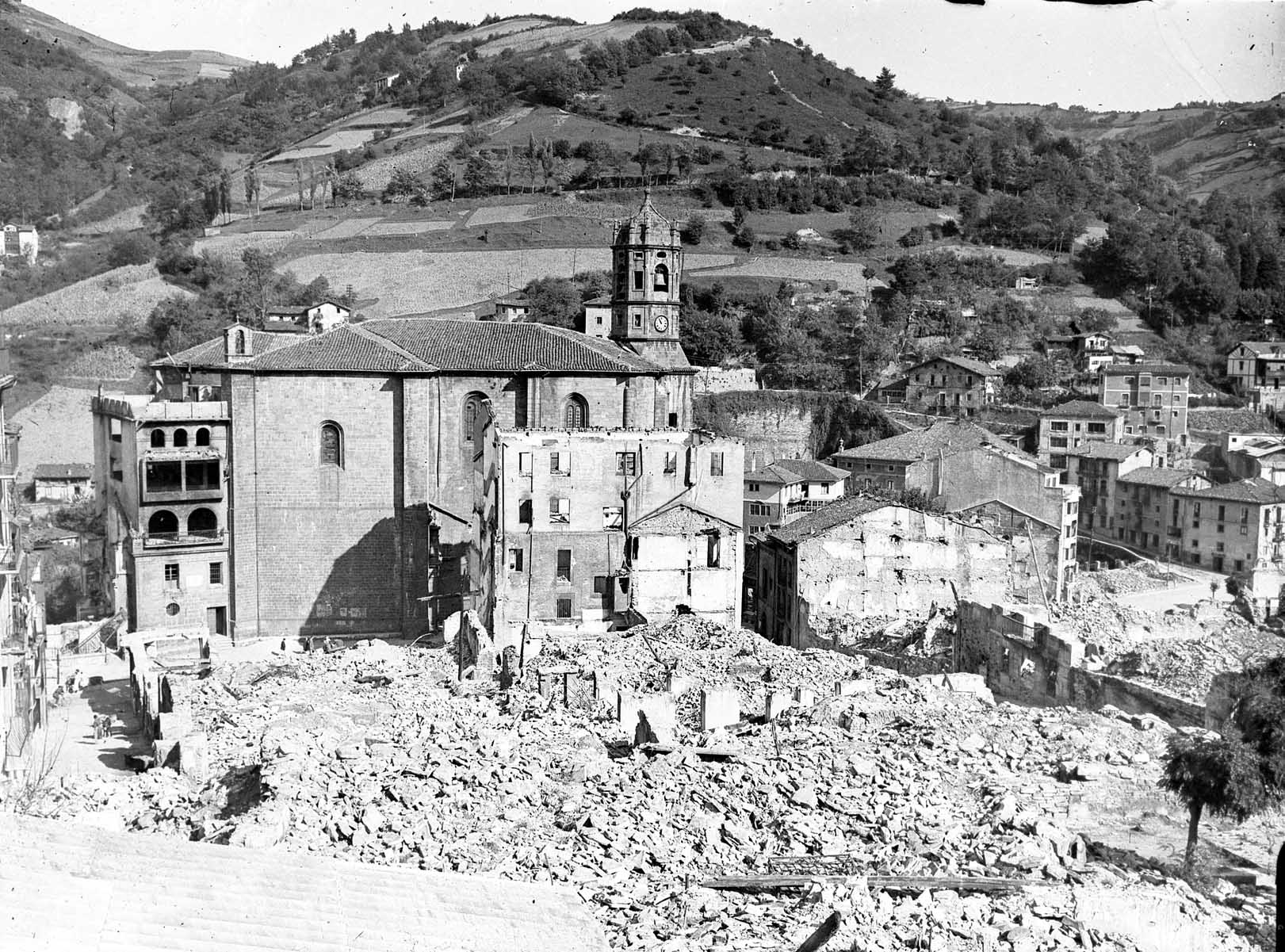 Central area of Eibar in ruins after the 25 April 1937 Spanish Nationalist air strike one year on (1938)